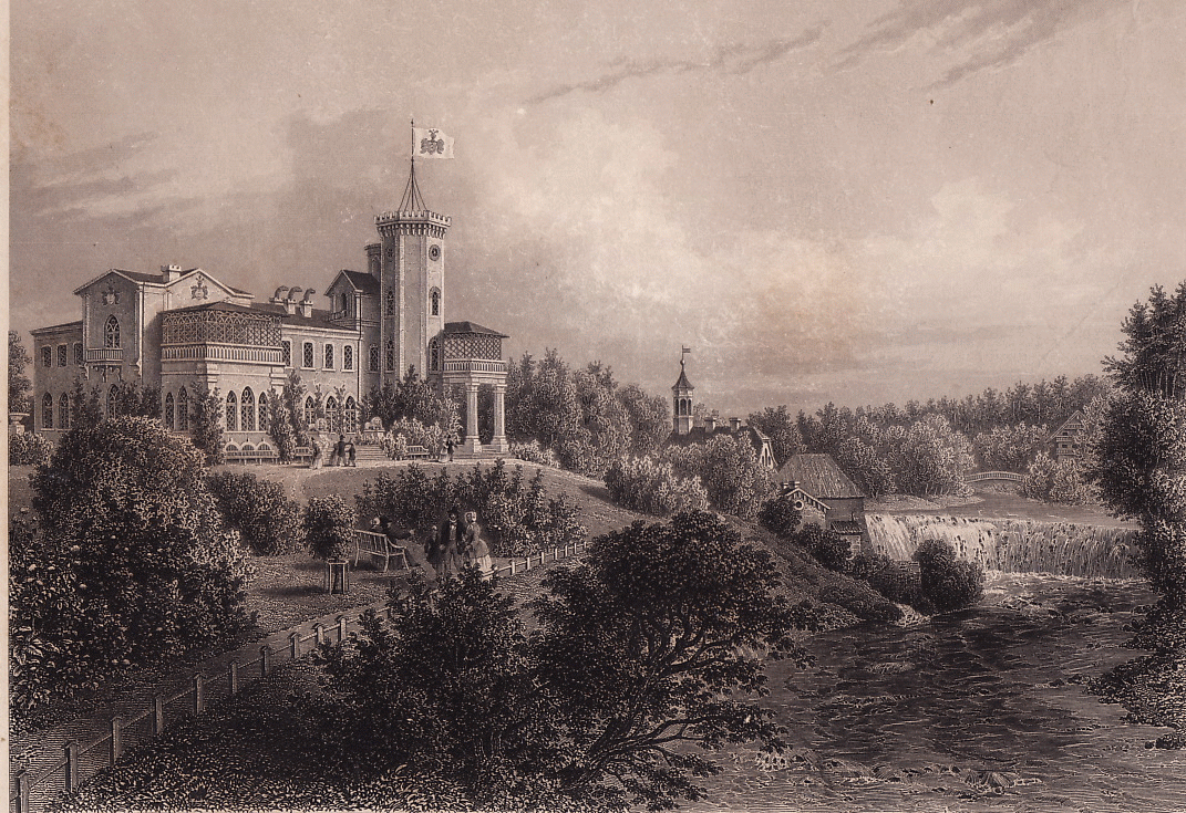 Schloss Fall Stavenhagen, Wilhelm Siegfried (1814 - 1881)